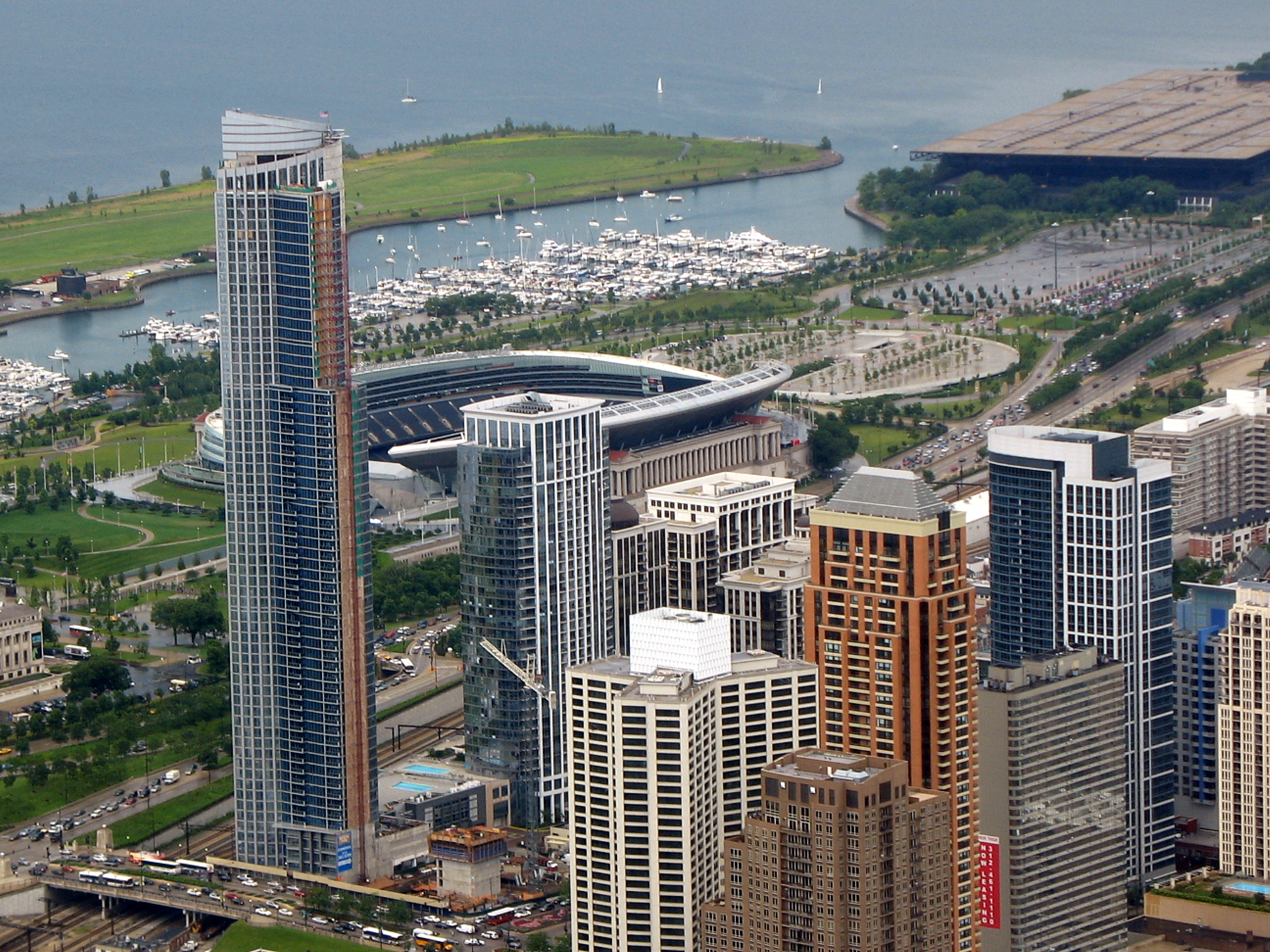 One Museum Park as seen from the Skydeck at the Willis Tower.